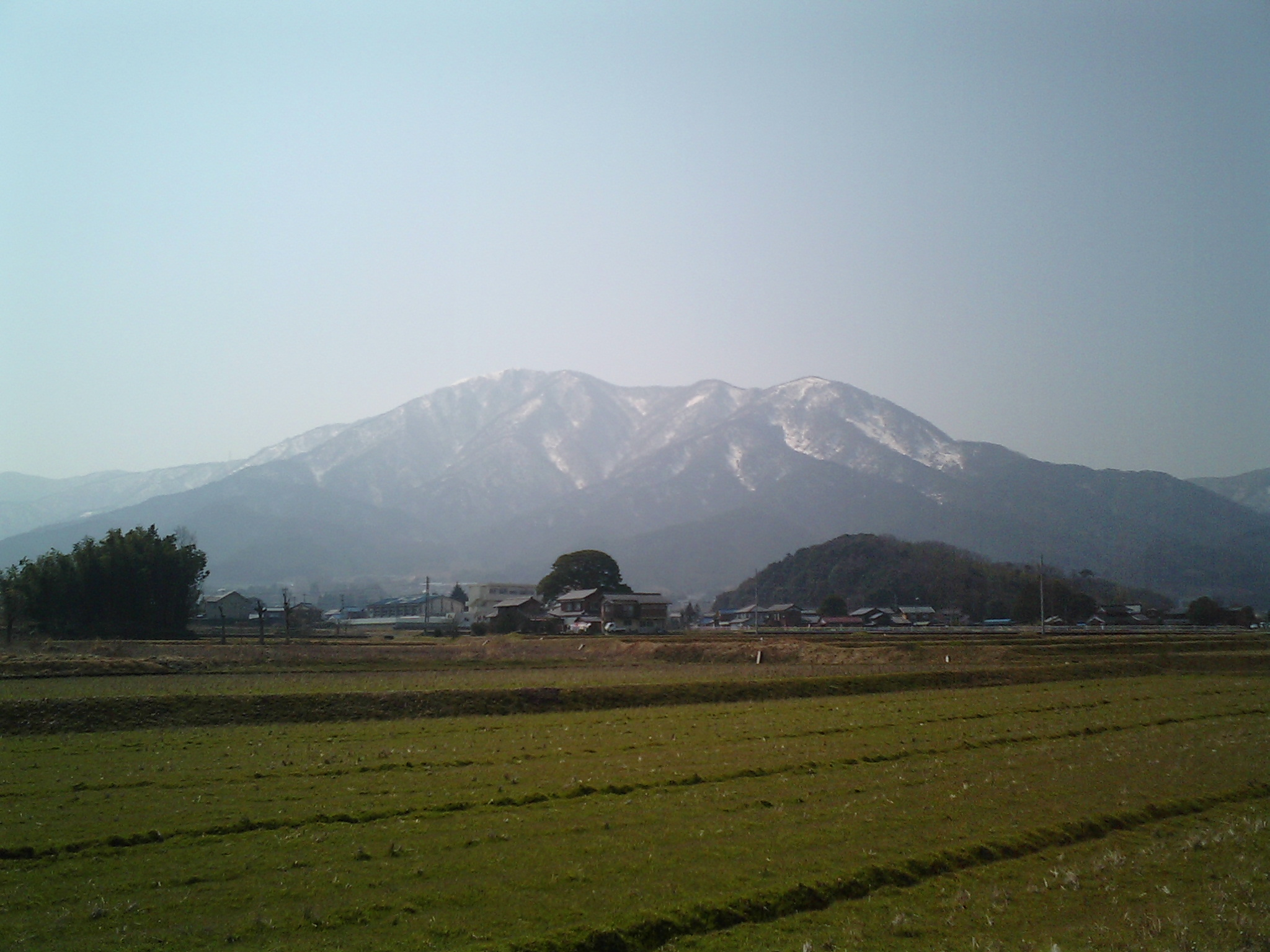 Mount Nosaka seen from the northeast.